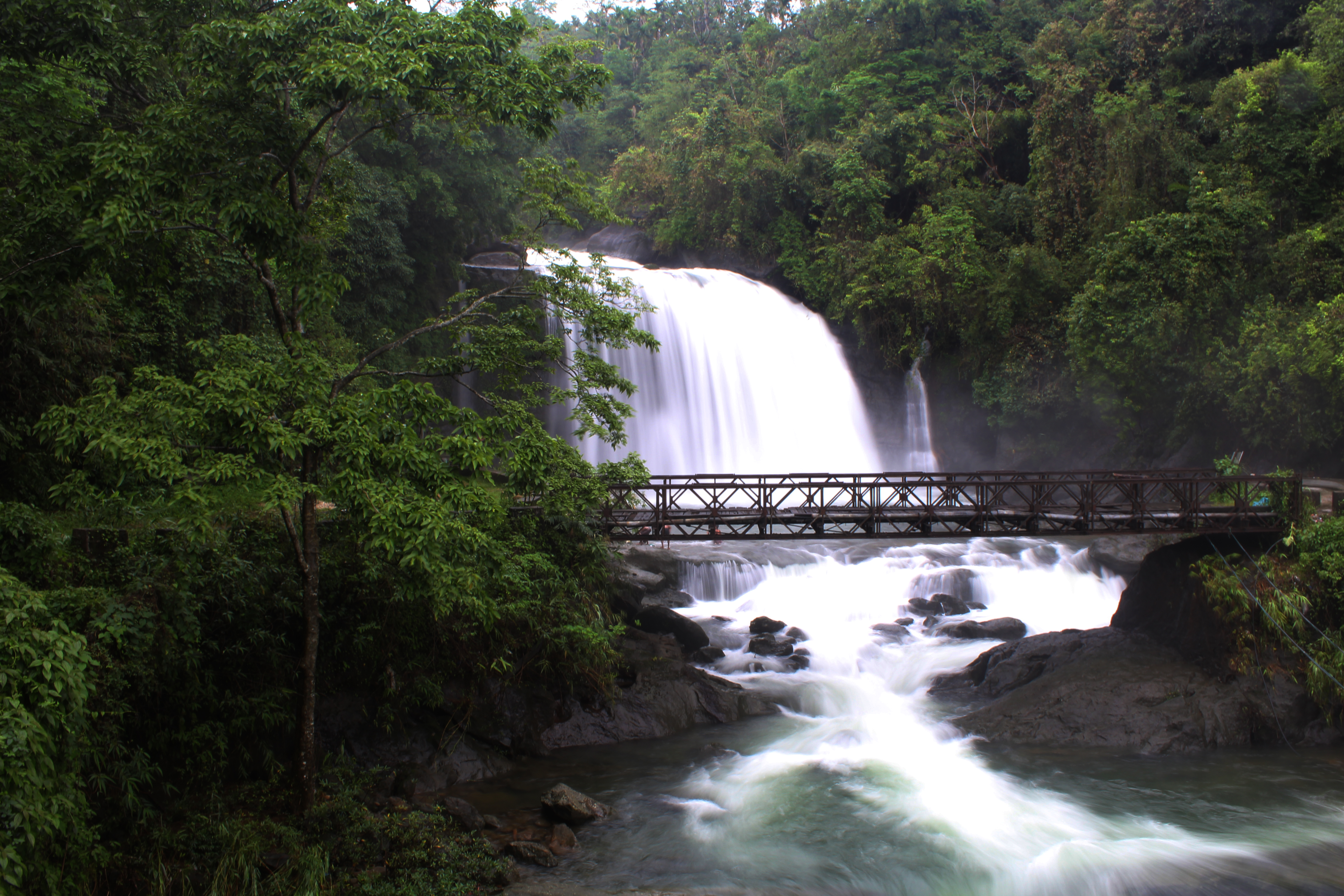 Waterfalls, Meghalaya - This beautiful waterfall amidst dense forests is on the way to Dawki from Mawlynnong. The old bridge in between adds to the beauty.